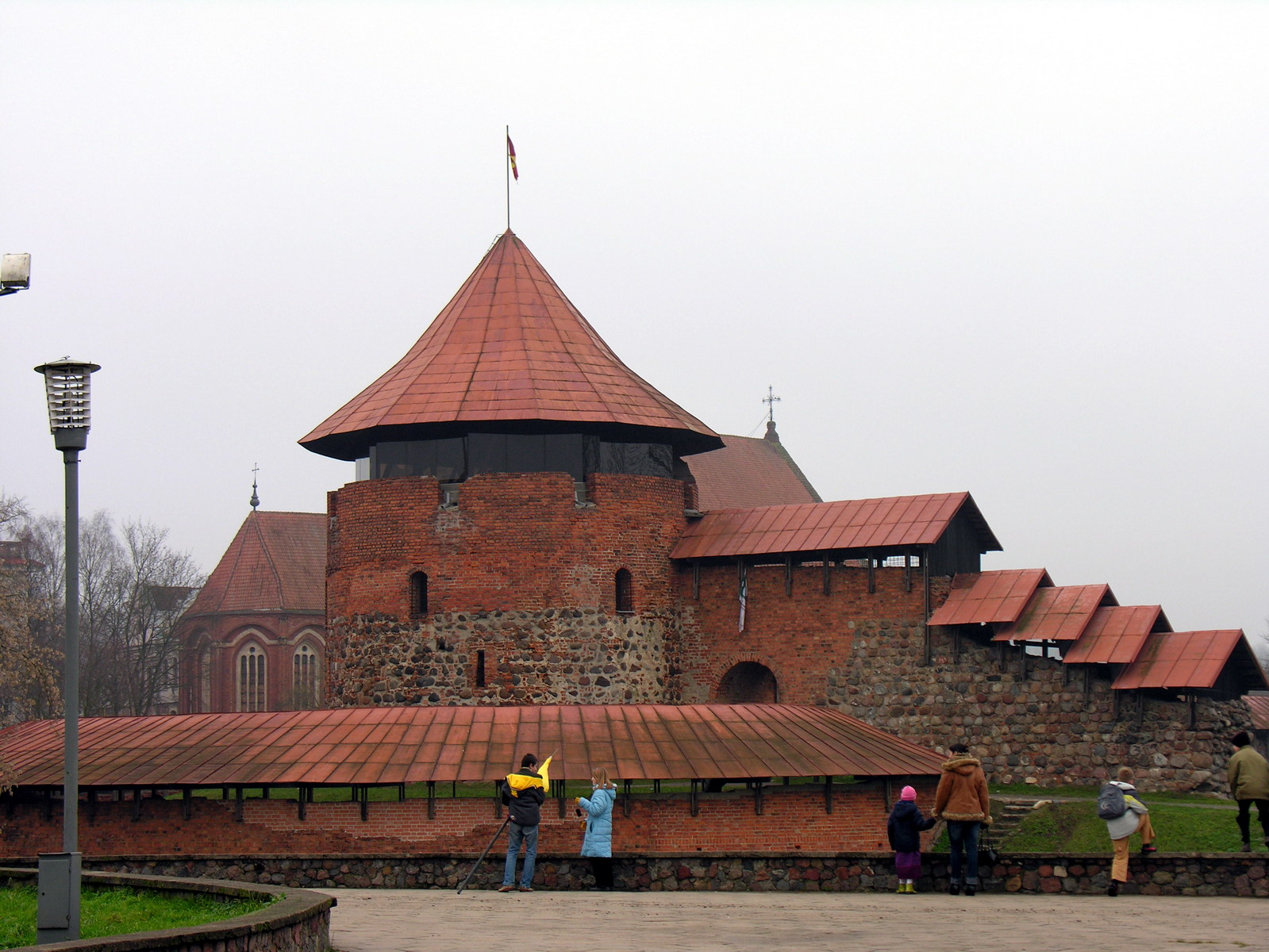 Kaunas castle.